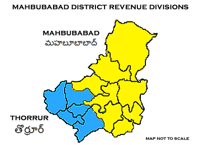 Mahbubabad District Revenue divisions